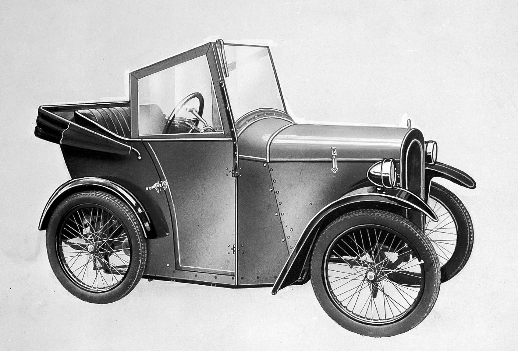 Four wheeled motorised invalid car, The Pultney Two Seater'. Wellcome Images Keywords: chairs; invalid; R.A. Harding